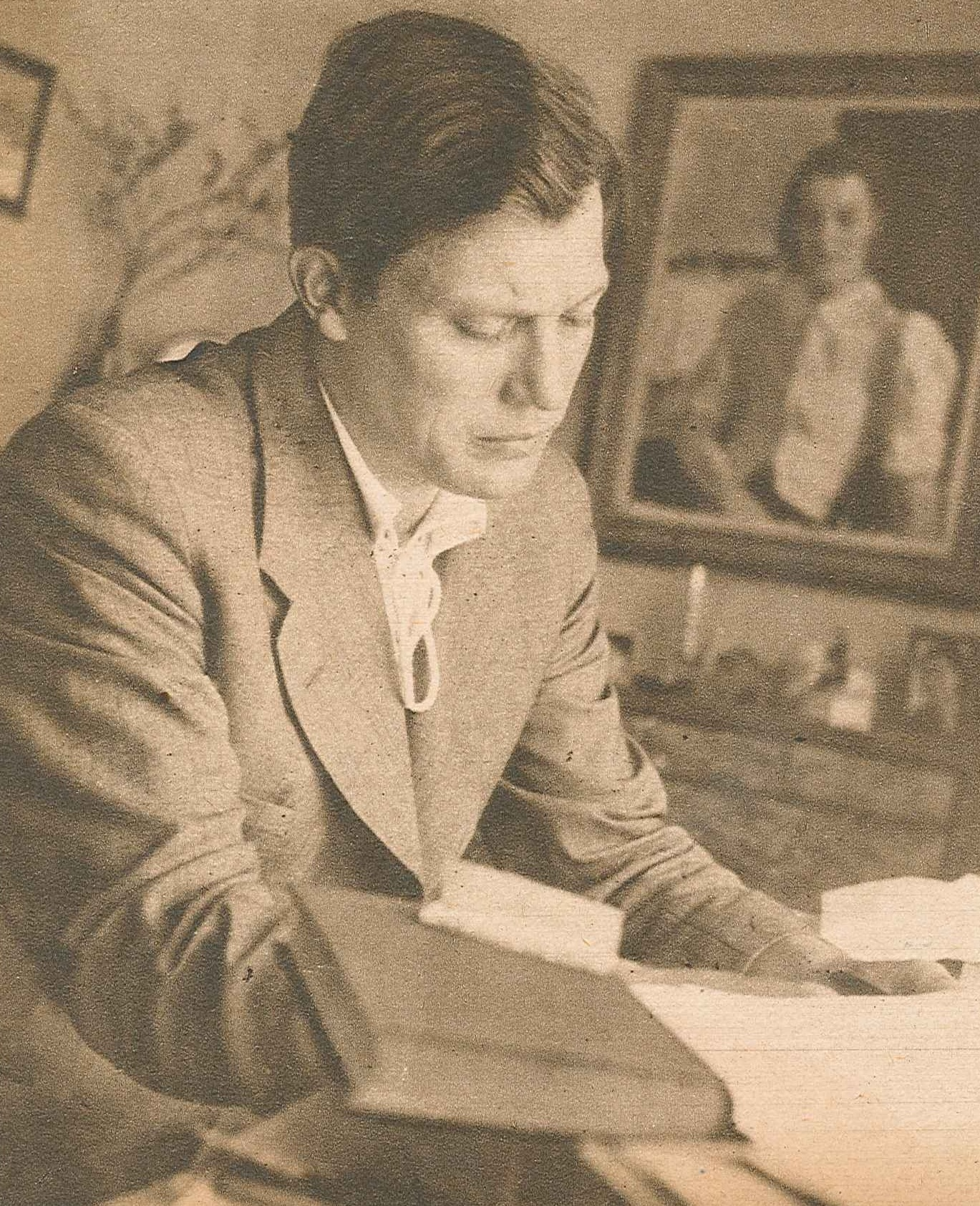 Harry Martinson (1904-1978), Swedish author and poet; reciever of the Nobel Prize in Literature in 1974.